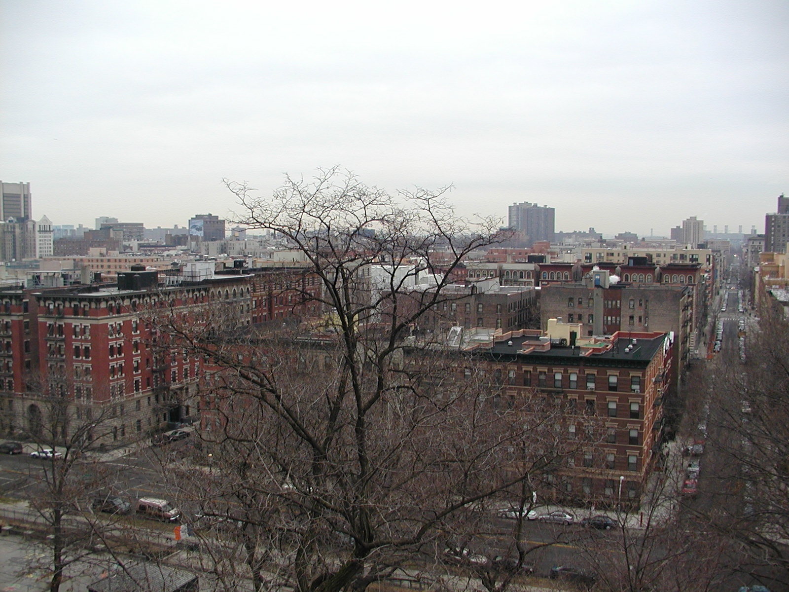 View of Harlem seen from Morningside Drive on Morningside Heights overlooking Morningside Park. I (Petri Krohn) took this picture in March 2005.